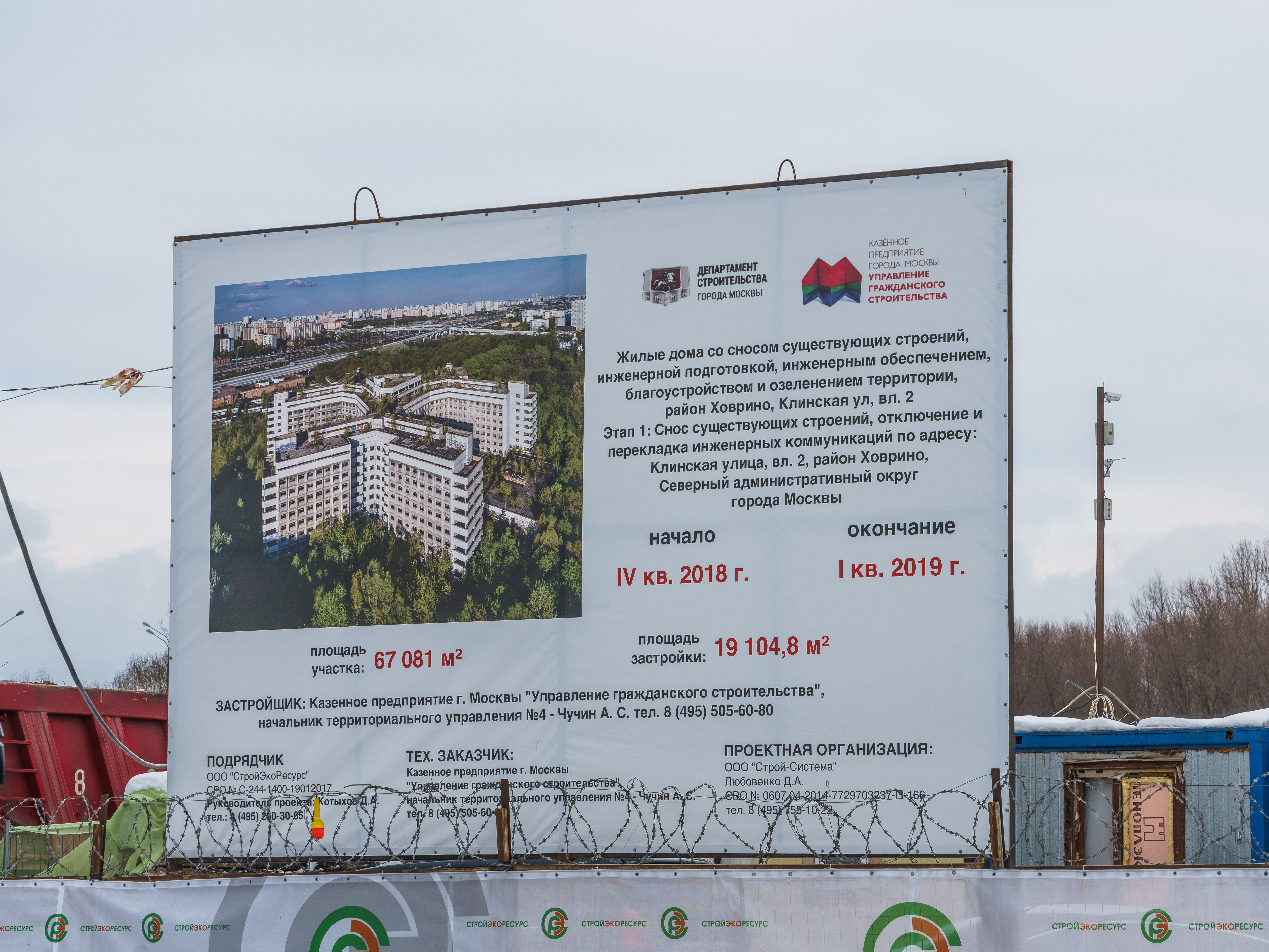 Construction site information board at former Khovrino Hospital in Moscow, Russia. The aerial picture on the board is File:Moscow 05-2017 img15 Khovrino Hospital.jpg, which is being re-used in violation of the Free License terms and without a permission by the photographer.